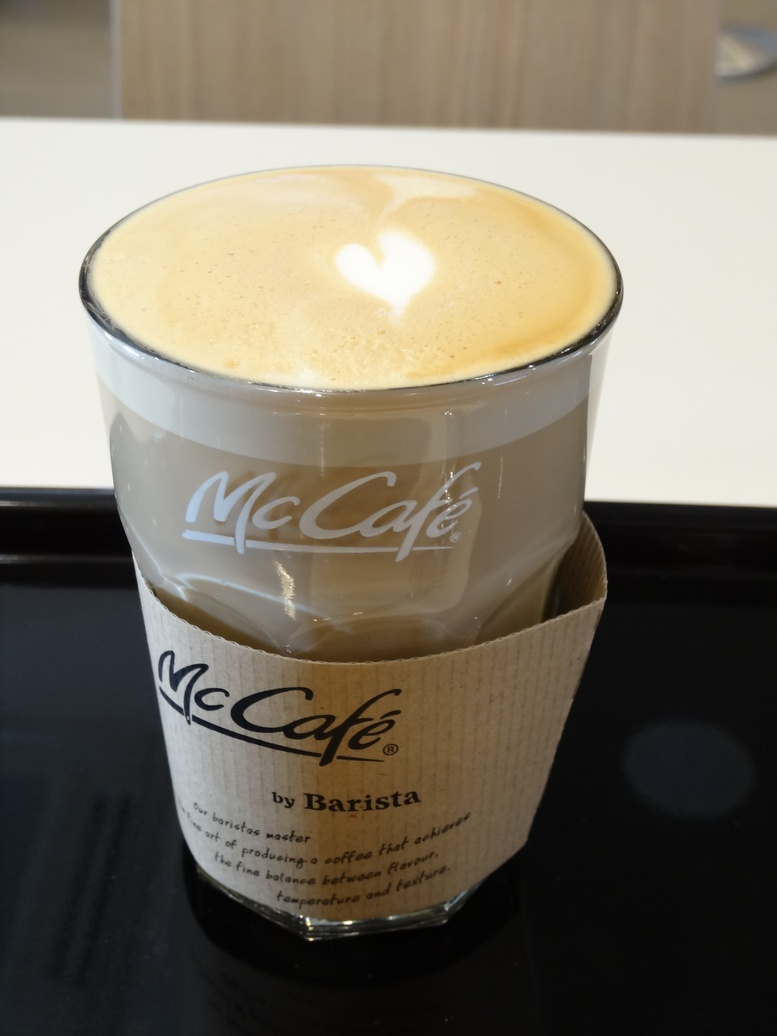 Cafe Latte - McCafe by Barista in Japan